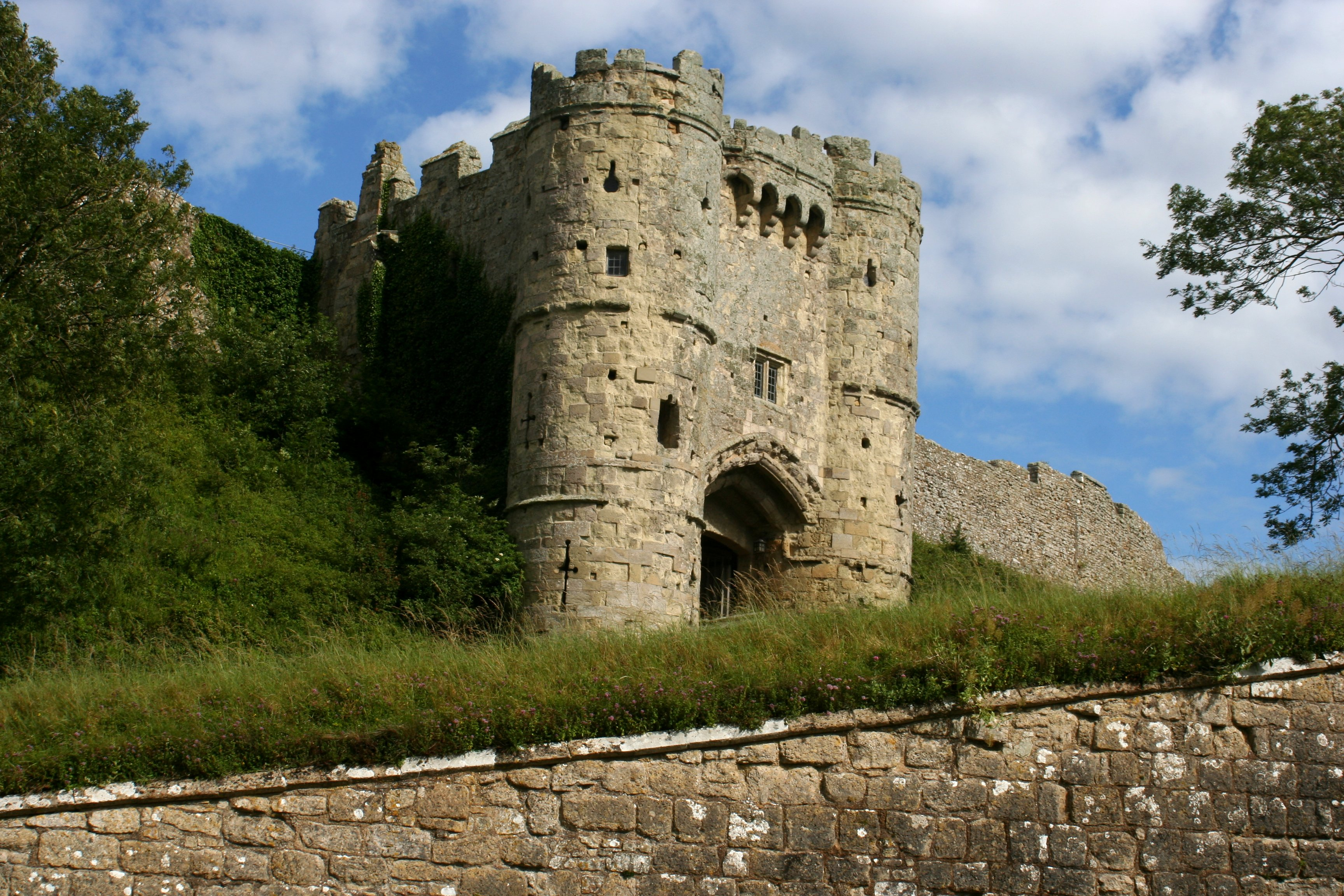 Gate of Carisbrooke Castle